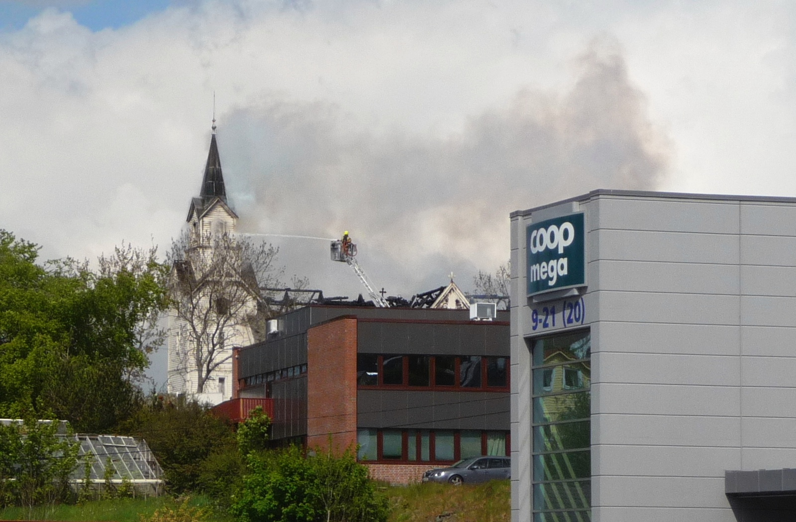 Kopervik Church destroyed by fire, 28.05.2010